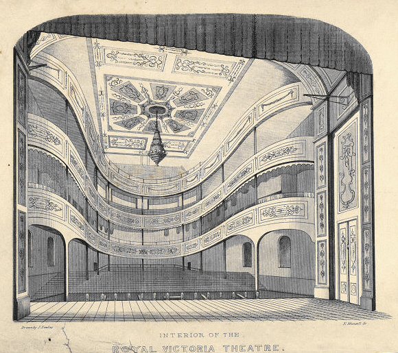 Interior of the Royal Victoria Theatre, etching, 19th century Victoria and Albert Museum, London, Museum number: S.3398-2009